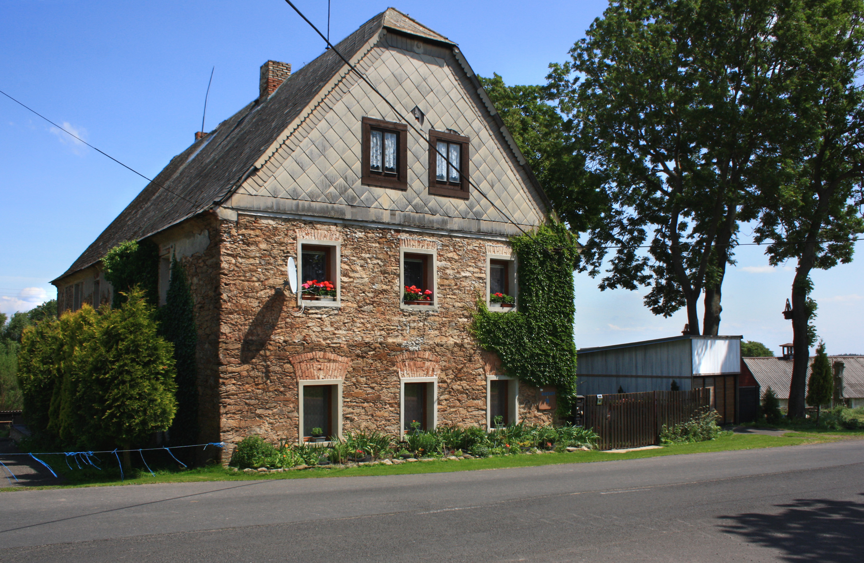 One-time pub at Radenov, part of Blatno, Czech Republic